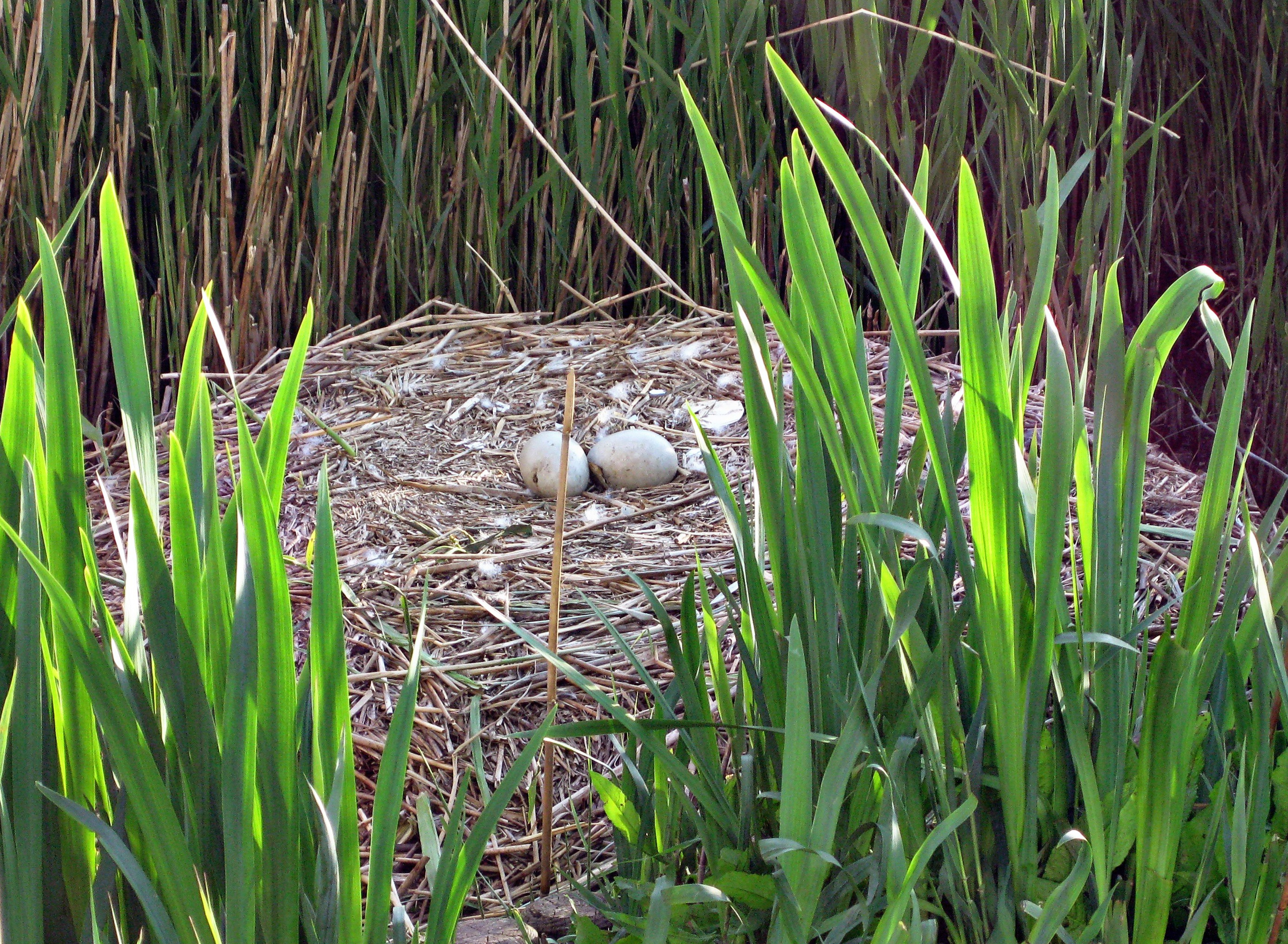 Swan's nest with two unhatched eggs, Warwickshire, England